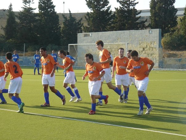 Swieqi team celebrate a goal